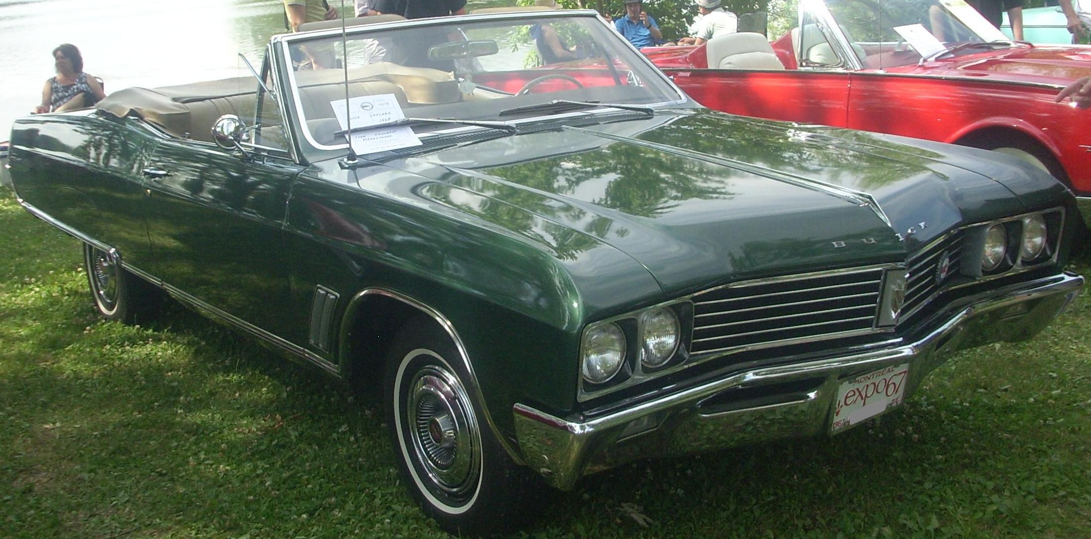 1967 Buick Skylark photographed in Laval, Quebec, Canada at Auto classique Laval 2010.